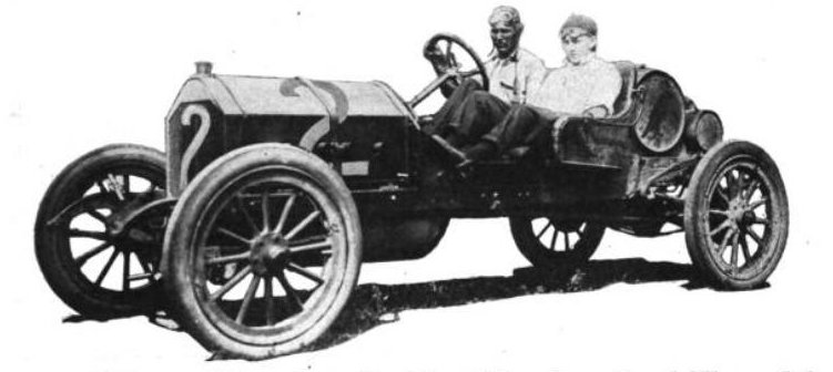 From Google Books